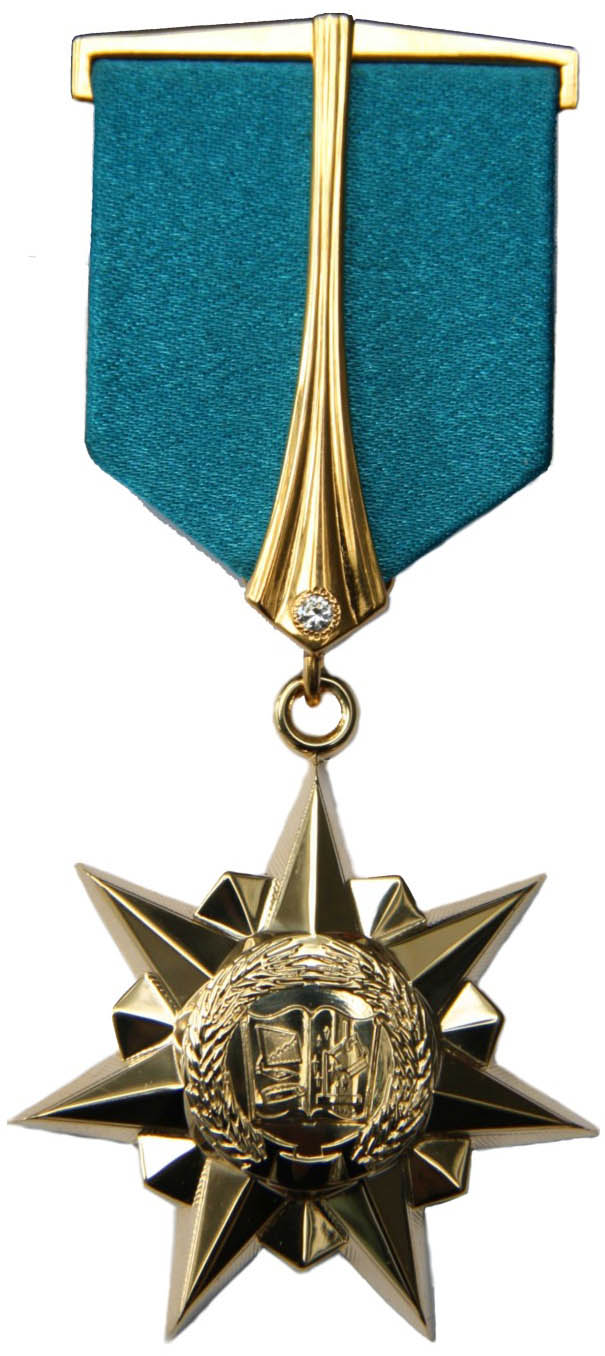 The state award of Republic Kazakhstan - the Gold star to a rank " the Hero of Work of Kazakhstan "